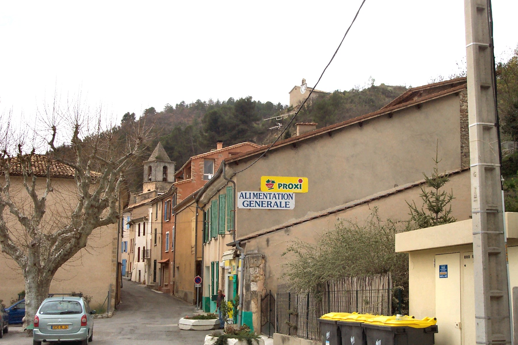 The village from the main street.